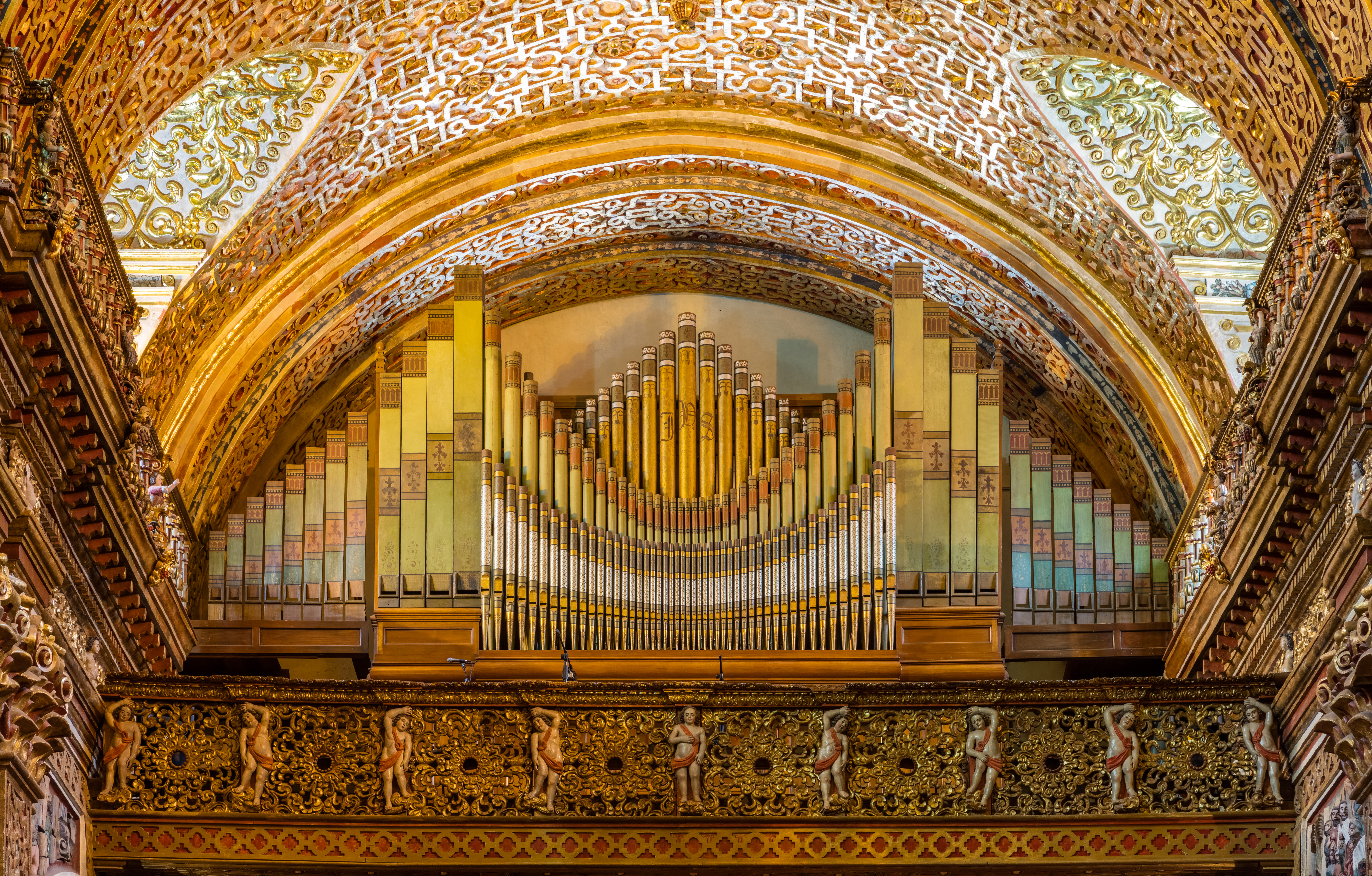 Main altar of the Church of the Society of Jesus (La Iglesia de la Compañía de Jesús), a Jesuit church in Quito, Ecuador. The exterior of the building gives no hint of the sumptuous internal decoration. Its large central nave is profusely embellished with gold leaf, gilded plaster and wood carvings, making it the most ornate church in Quito. One of the most significant works of Spanish Baroque architecture in America, it is considered the most beautiful church in Ecuador. The pipe organ is located in the choir, over the main entrance, and is with 1104 pipes the second biggest pipe organ in Quito that is still working: it was built in the United States in 1889, and is used during special festivities.